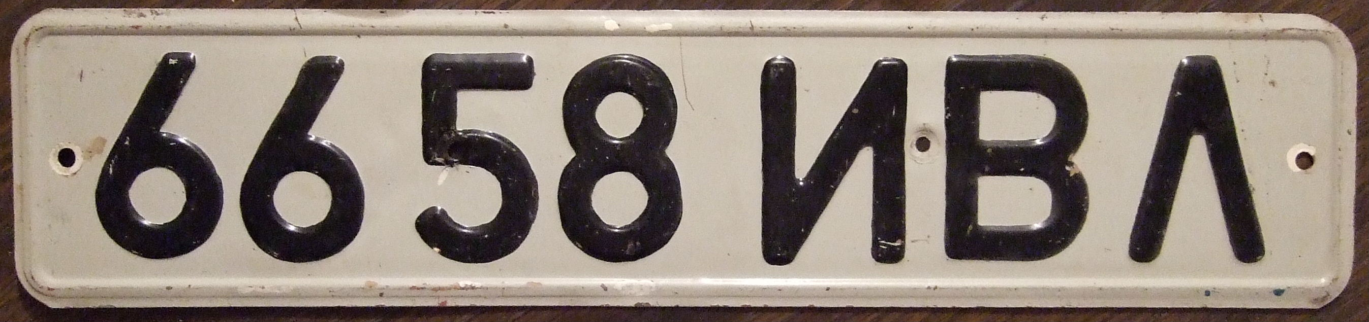 This plate from Ivanovo may be of some significance. The background color is of a distinct gray color. The plate is of a darker gray than in the pic. You can see flecks of white paint by the number "8" in the serial number to see the difference. Also the plate has an unpainted border.